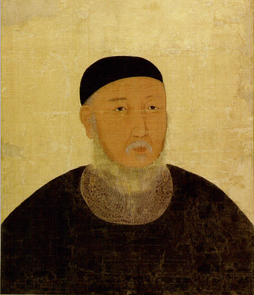 Portrait of Yeom Je-shin, who was a bureaucratcy of late Goryeo dynasty. This protrait has been designated as a treasure of South Korea.